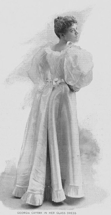 Georgia Cayvan in her glass dress in The Chicago World's Fair 1893